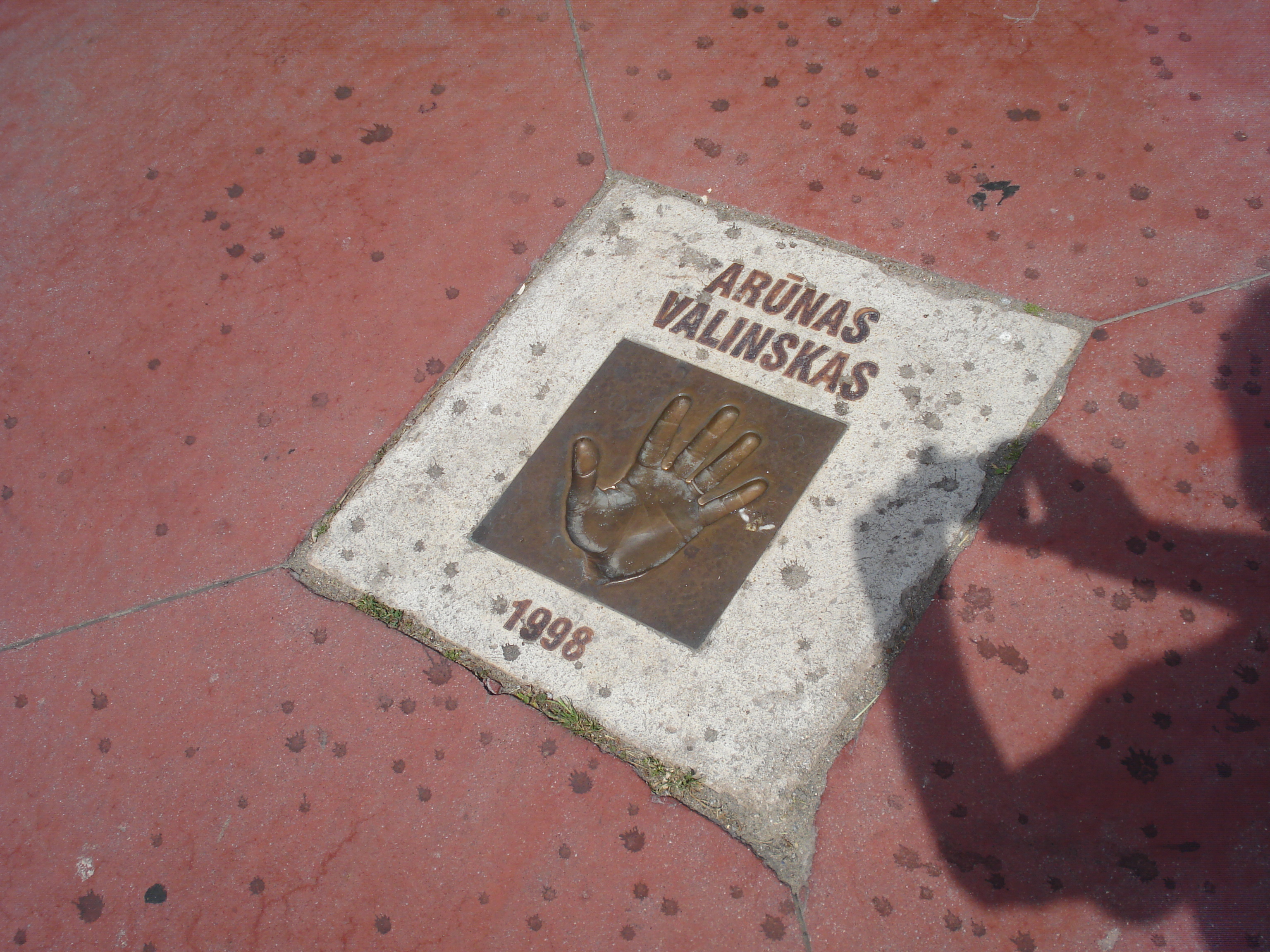 Walk of Fame in Nida: Arūnas Valinskas